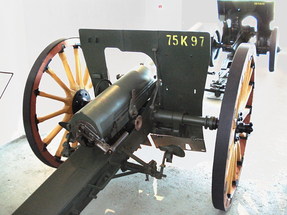 French 75 mm model 1897 gun, displayed in Hämeenlinna Artillery Museum. Photo taken on June 18, 2006. Source: Photo by me, User:Balcer.